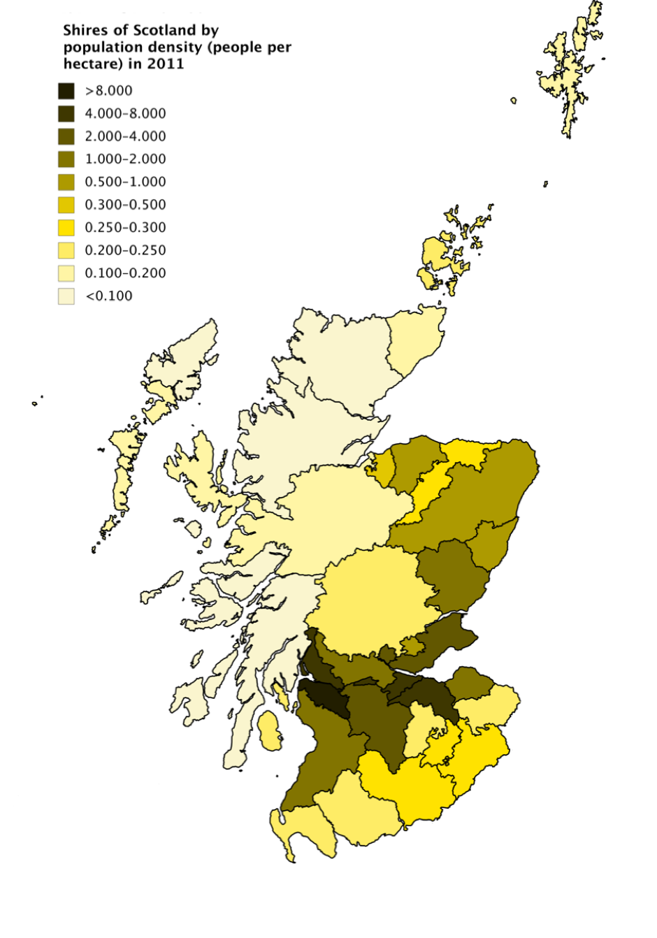 A choropleth map showing the historical Shires of Scotland by population density (people per hectare) in 2011. Values were calculated by dividing the total population by area of these counties using data from the civil parishes from Scotland's Census. Some parishes do not have data in the Census (1 in Fife, 2 in Forfarshire, 1 in Lanarkshire, 2 in Peeblesshire and 2 in Perthshire), and these parishes are not counted in the population density figures of the shires.